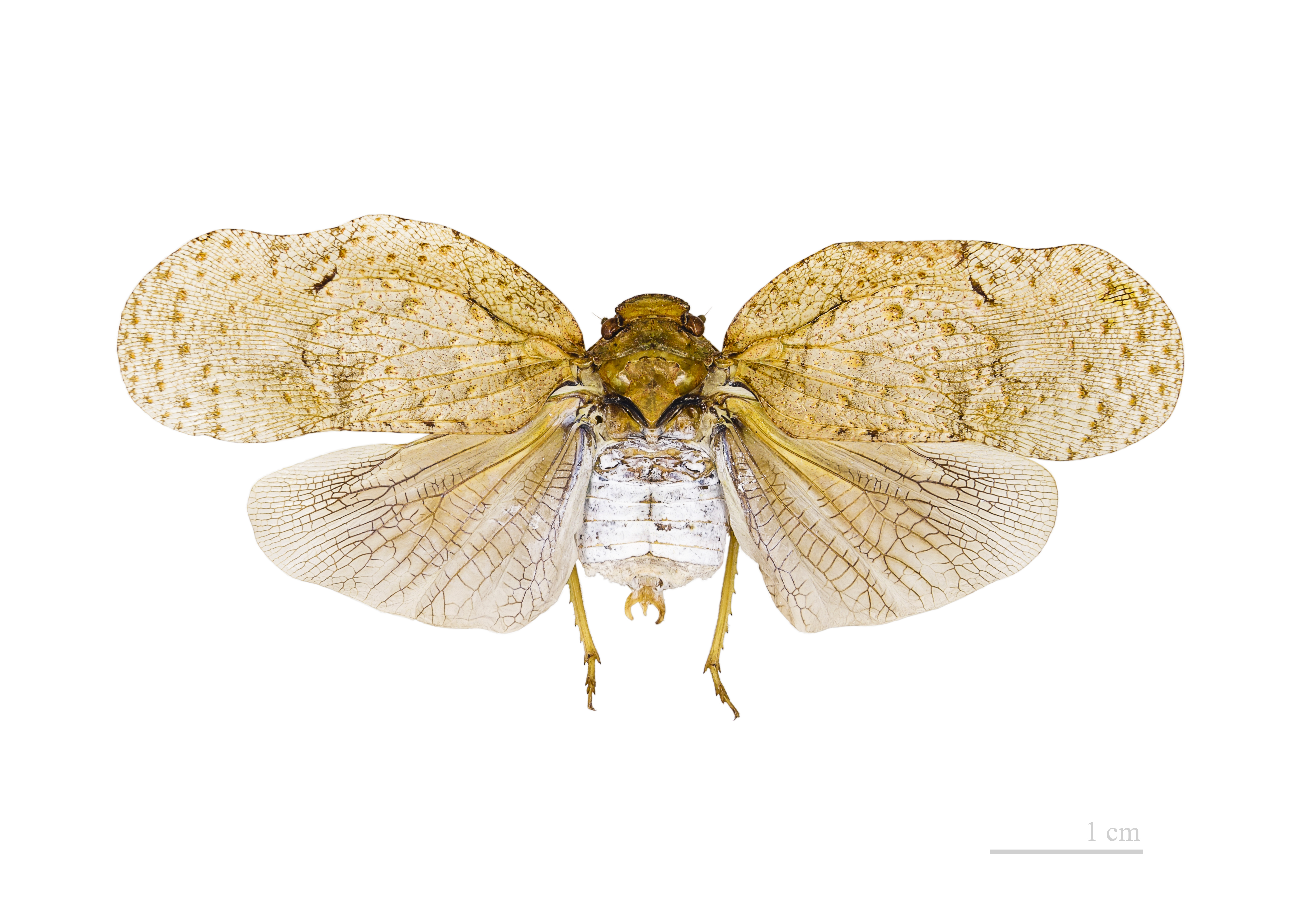 Dorsal side Locality : “PK45 route de Kaw, Carbet Ostrom”, French Guiana.